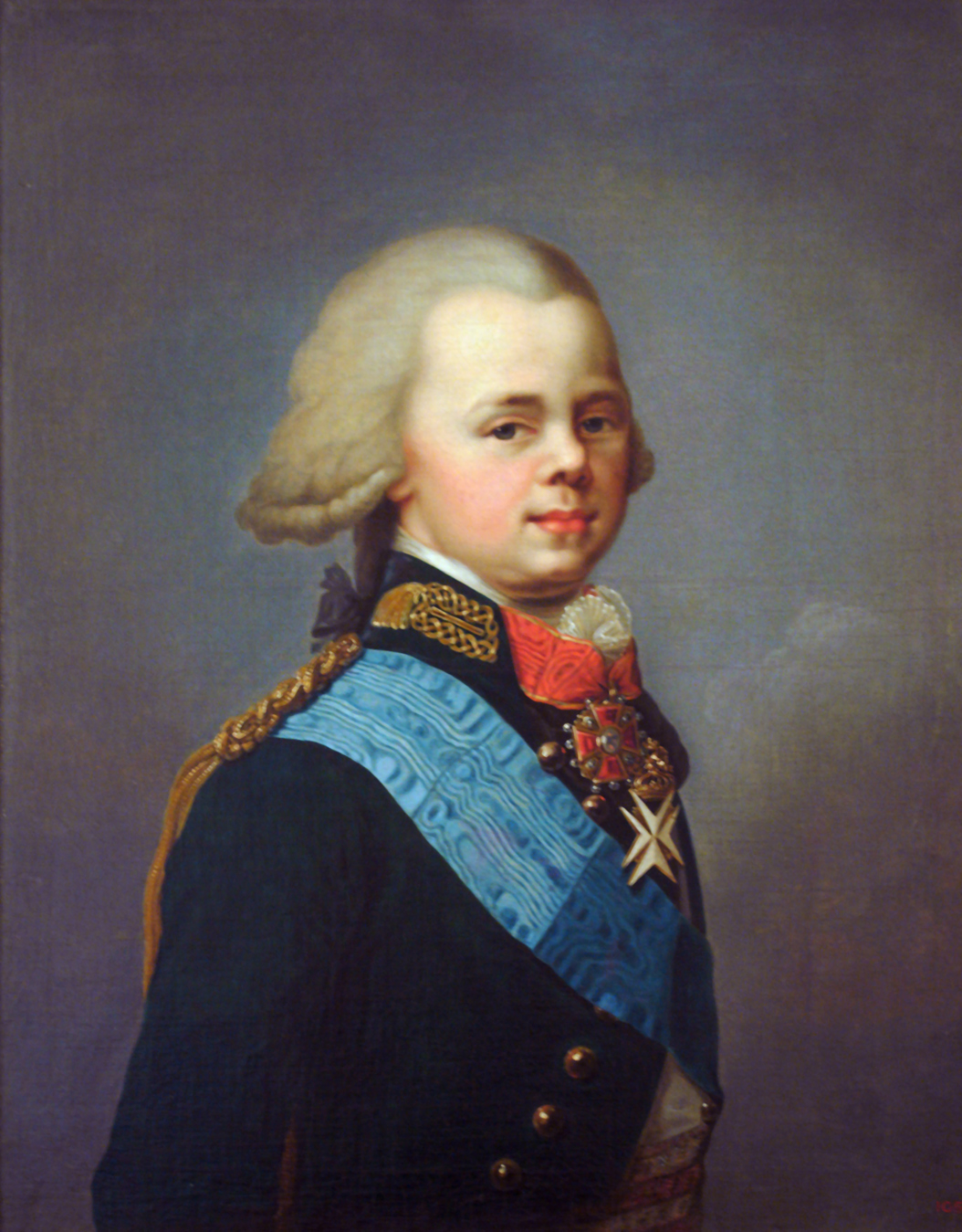 Unknown artist - Portrait of the Grand Duke Konstantin Pavlovich. Second half of the XVIII. Oil on canvas. St. Michael's Castle, St. Pitersburg, Russa